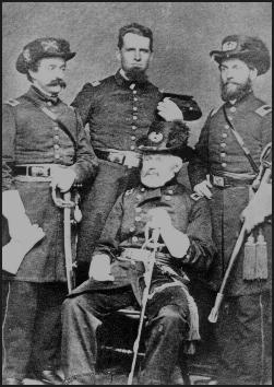 Thomas Jefferson McKean (1810-1870) from